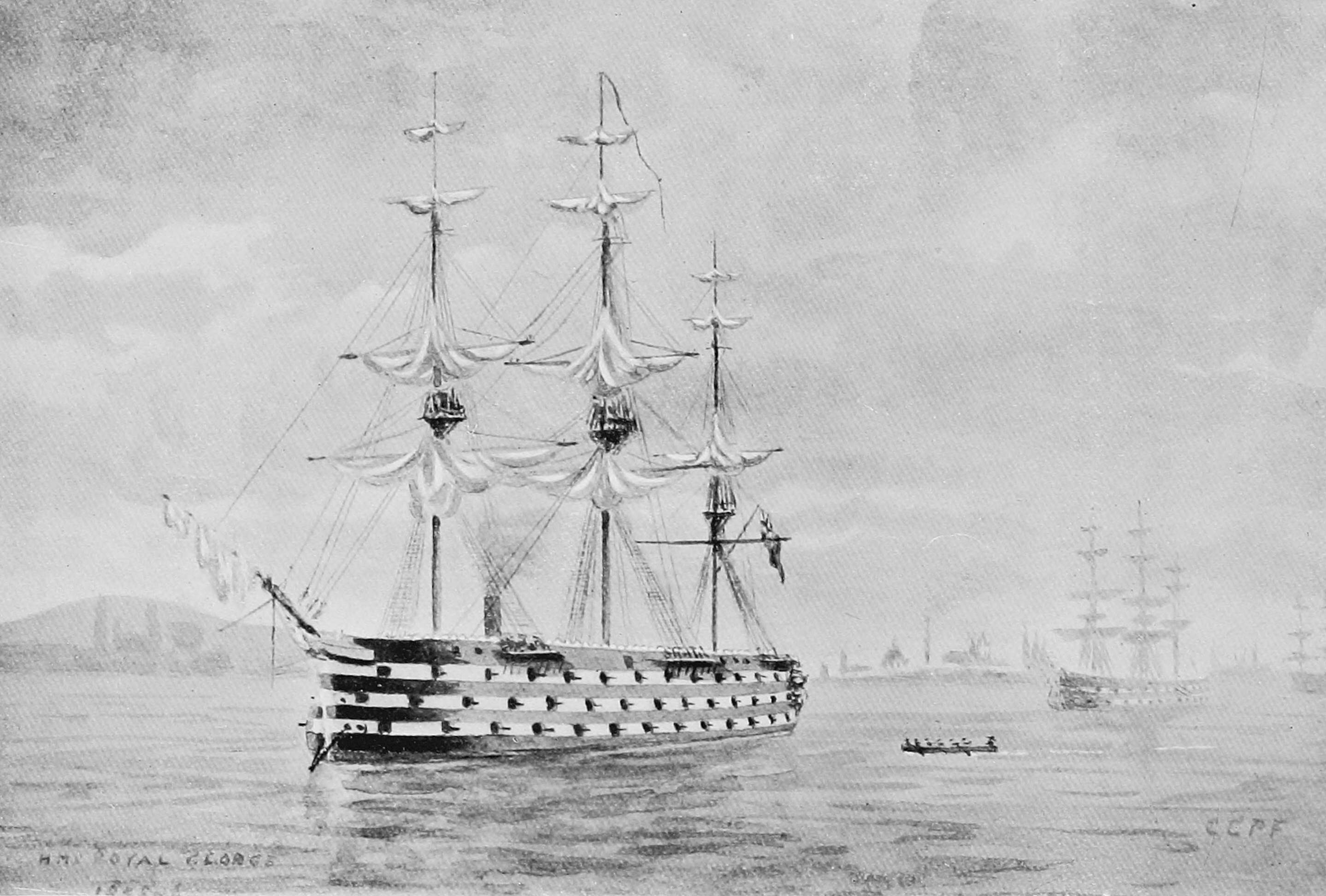 HMS Royal George was built 1827 but converted to steam in 1853. Painted with Funnel by Penrose Fitzgerald who served on her 1856. Original signed C C P F and has an illegible date 18 something